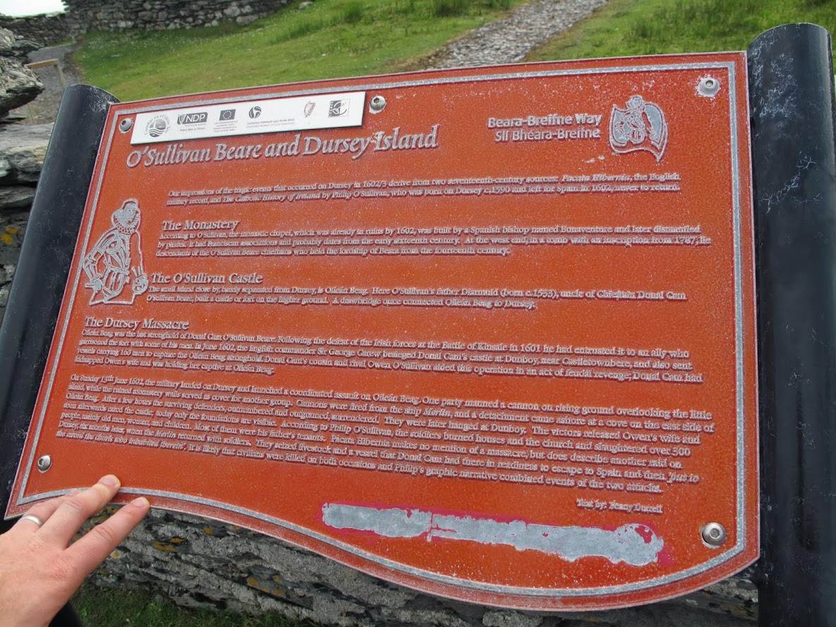 Sign on Dursey Island (close to Oilean Beag and the monastic church ruin at Ballynacallagh) describing the siege and massacre at Dursey, and the context within the O'Sullivan Bere conflict and subsequent march.